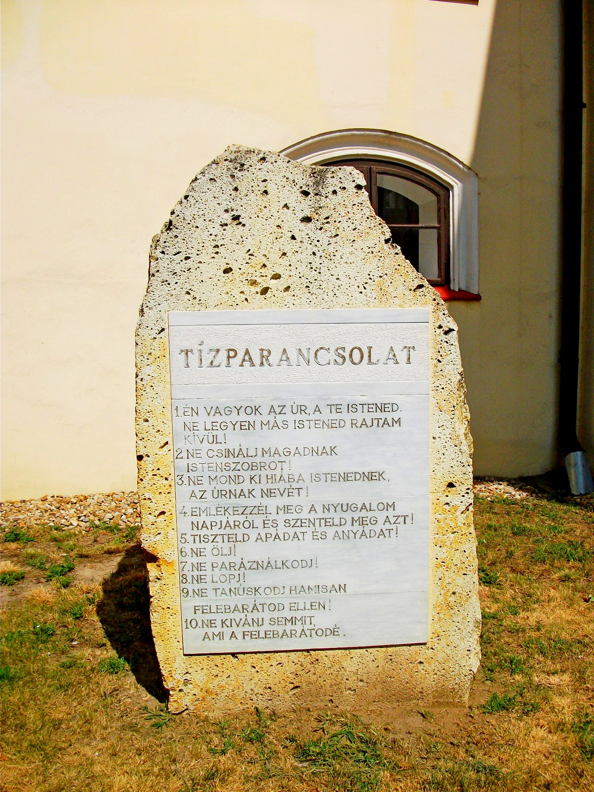 Ten Commandments plaque on Hajdúszoboszló, Hungary.